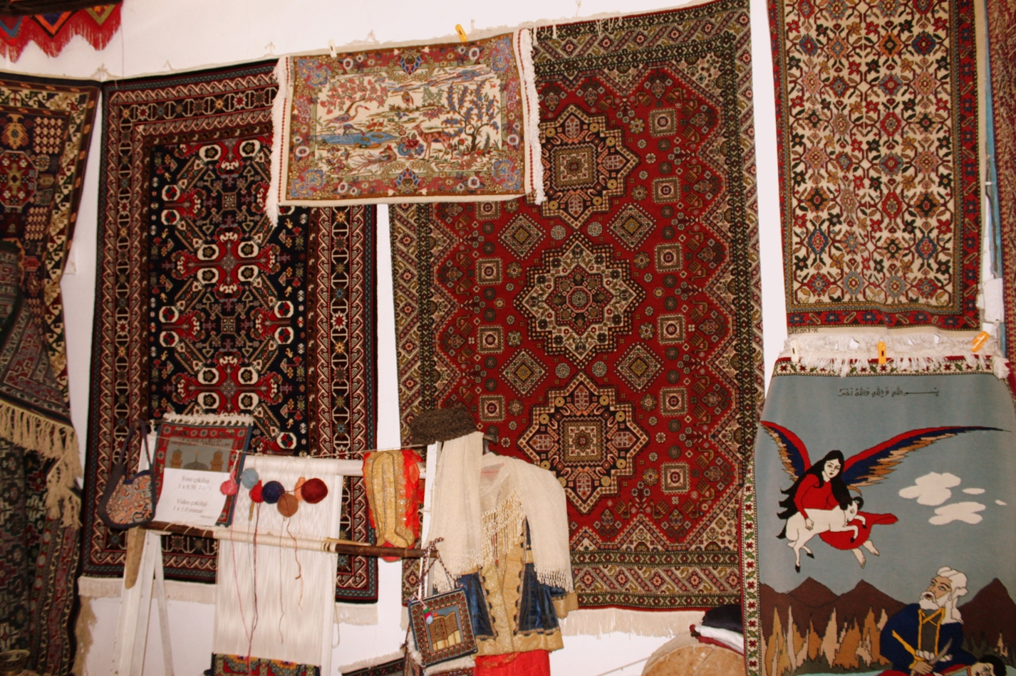 Lahic, Azerbaijan.